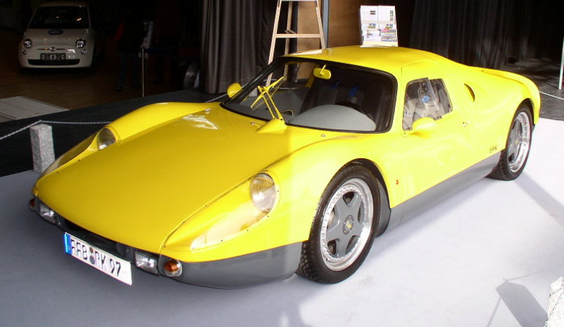 2008 Kurek GT-6 prototype